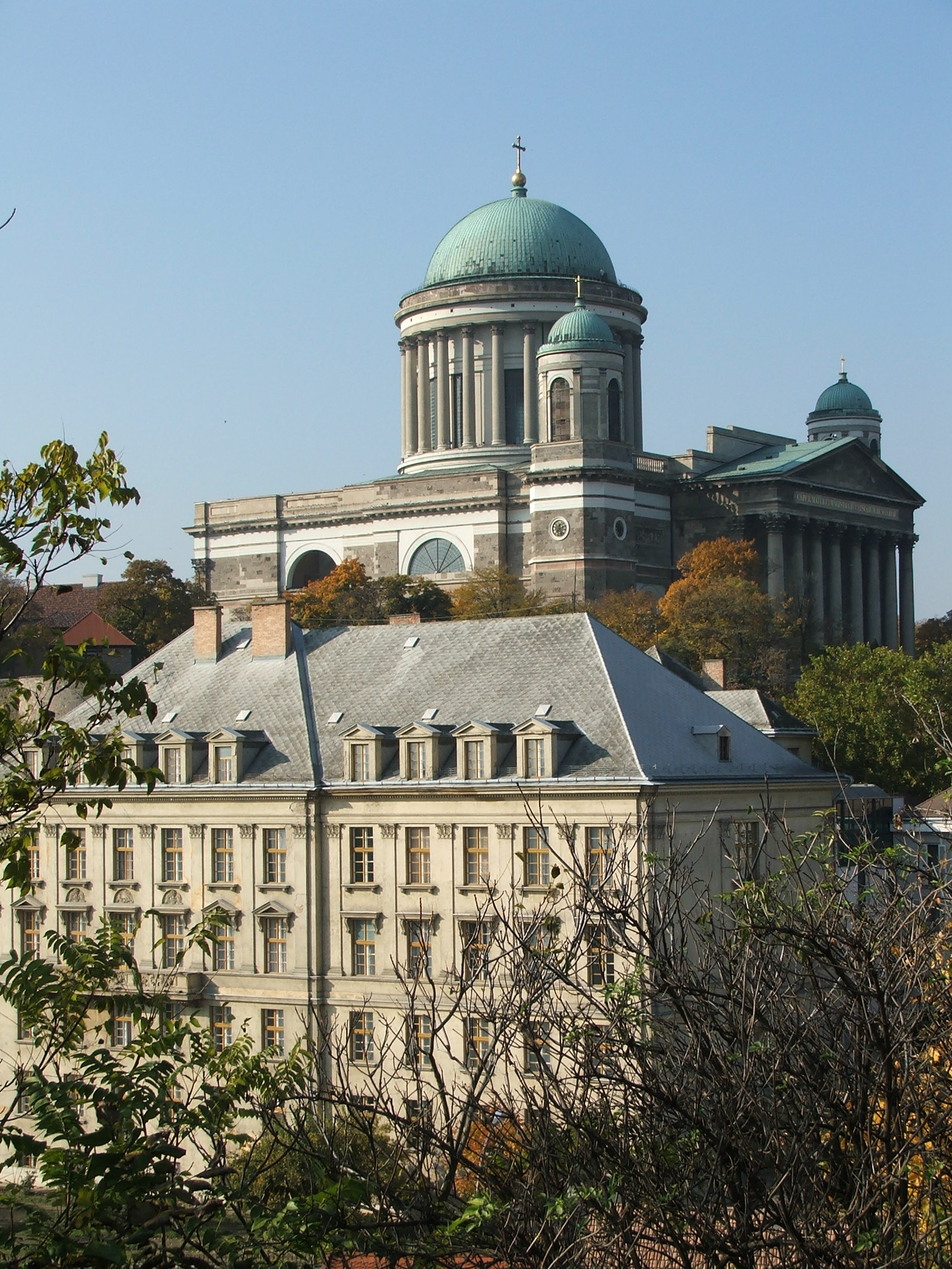 Esztergom Basilica with the PPKE-VJK University